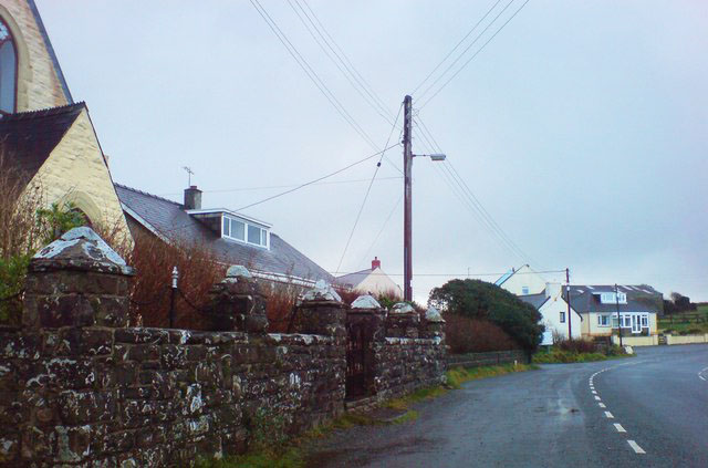 The hamlet of Penycwm Meaning, 'Head of the Valley'.